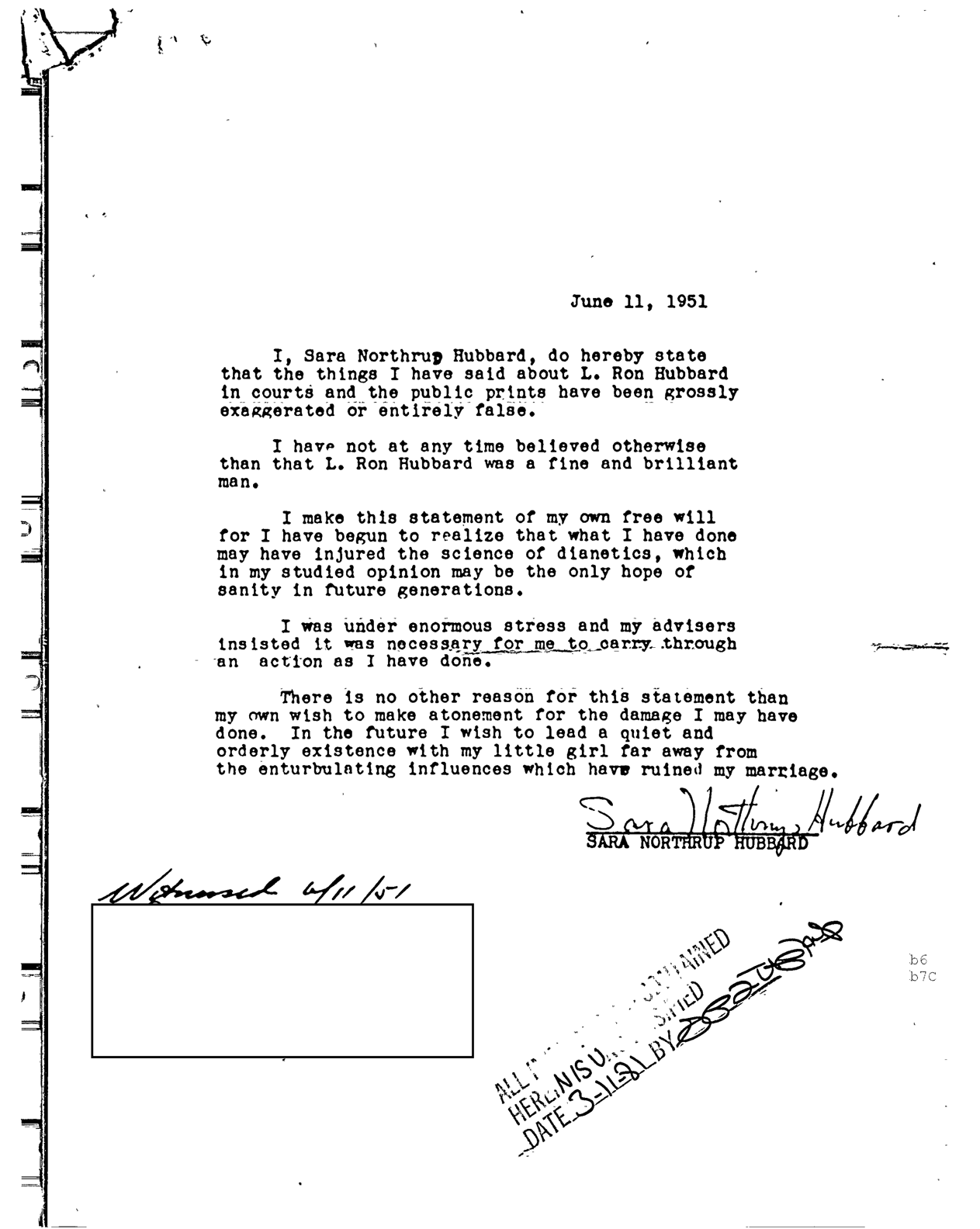 Public statement issued by Sara Northrup Hubbard as part of her divorce agreement.